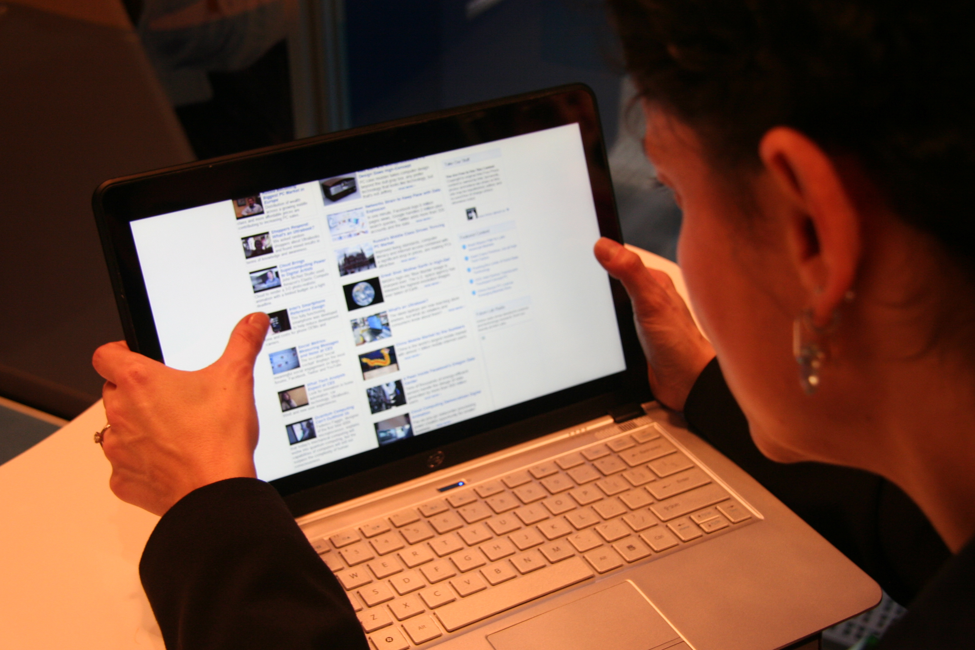 In her testing, Intel user experience manager Daria Loi observed people using their thumbs to touch both sides of the screen, similar to how people hold a tablet or smartphone. But Loi says that participants strongly expressed that they did not want the keyboard to go away. “Many gave practical or emotional reasons for liking the physical keyboard, such as the way it feels or sounds when pressing down on the different keys," she said. "Most participants did not like interacting with the virtual keyboard, even when touch was their favorite input modality.” Intel Free Press story: Do People Want Touch on Laptop Screens? Consumer tests reveal users want single device with a keyboard that opens, closes and is touch enabled.